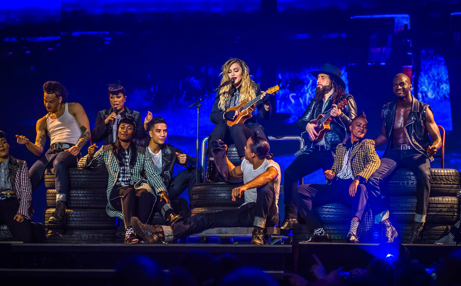 Rebel Heart Tour